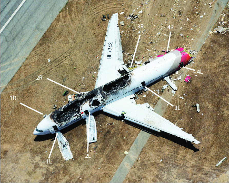 Overhead view of Asiana Airlines Flight 214' post-accident at San Francisco International Airport (SFO). The location of exit doors are indicated on the photograph.